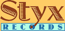 Logo Styx Records